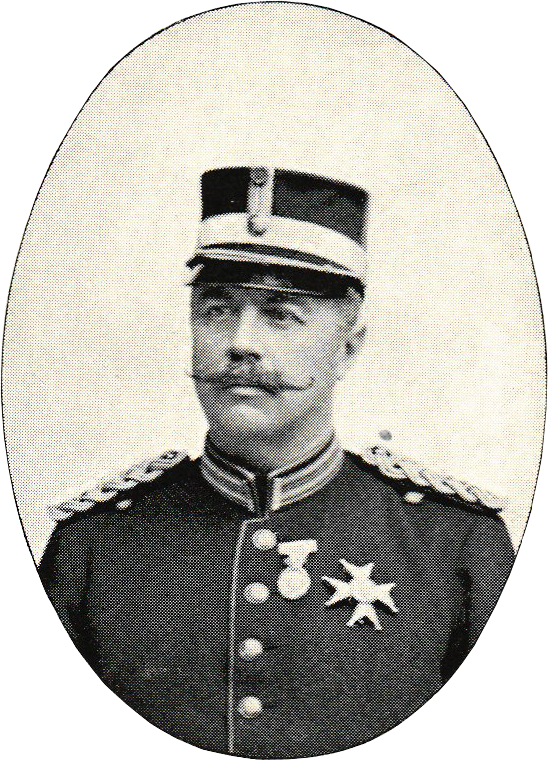 Leonard Wilhelm Stjernstedt (1841-1919), Swedish baron and general.